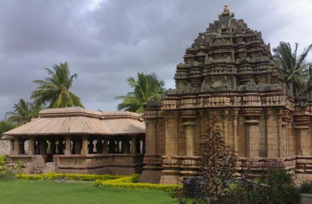 Panchalingeshwara temple Hooli Author and Source : Manjunath Doddamani, gajendragad, Karnataka (North), India